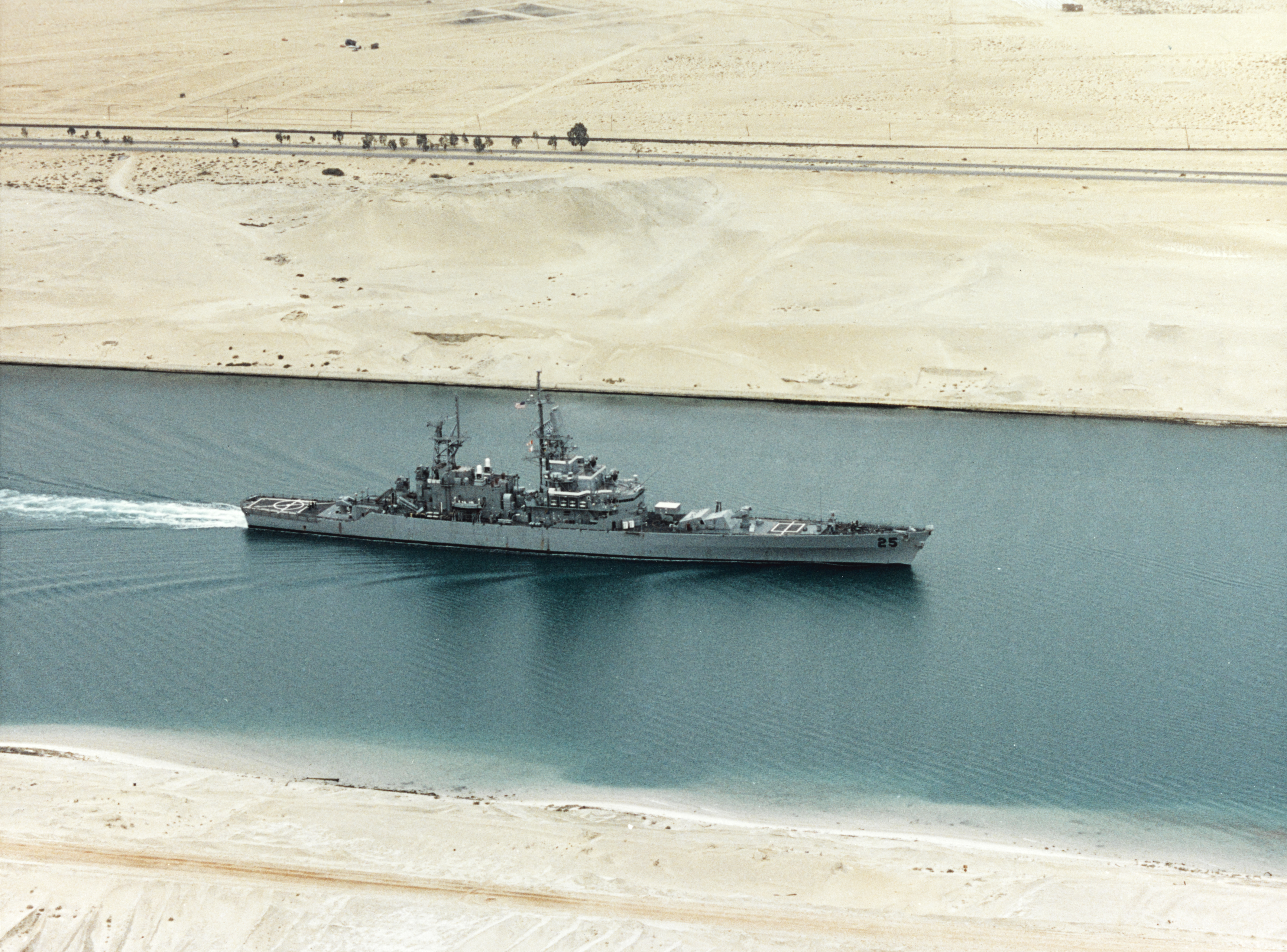 The U.S. Navy guided missile cruiser USS Bainbridge (CGN-25) underway in the Suez Canal on 27 February 1992, while en route to the Mediterranean Sea with the USS Dwight D. Eisenhower (CVN-69) battle group.